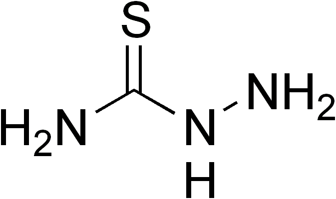 chemical structure of thiosemicarbazide